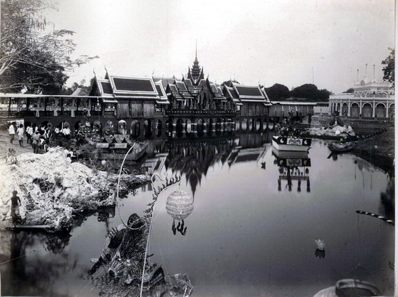 Bang Pa In Royal Palace - lake, garden, and pavilions - in 1904.